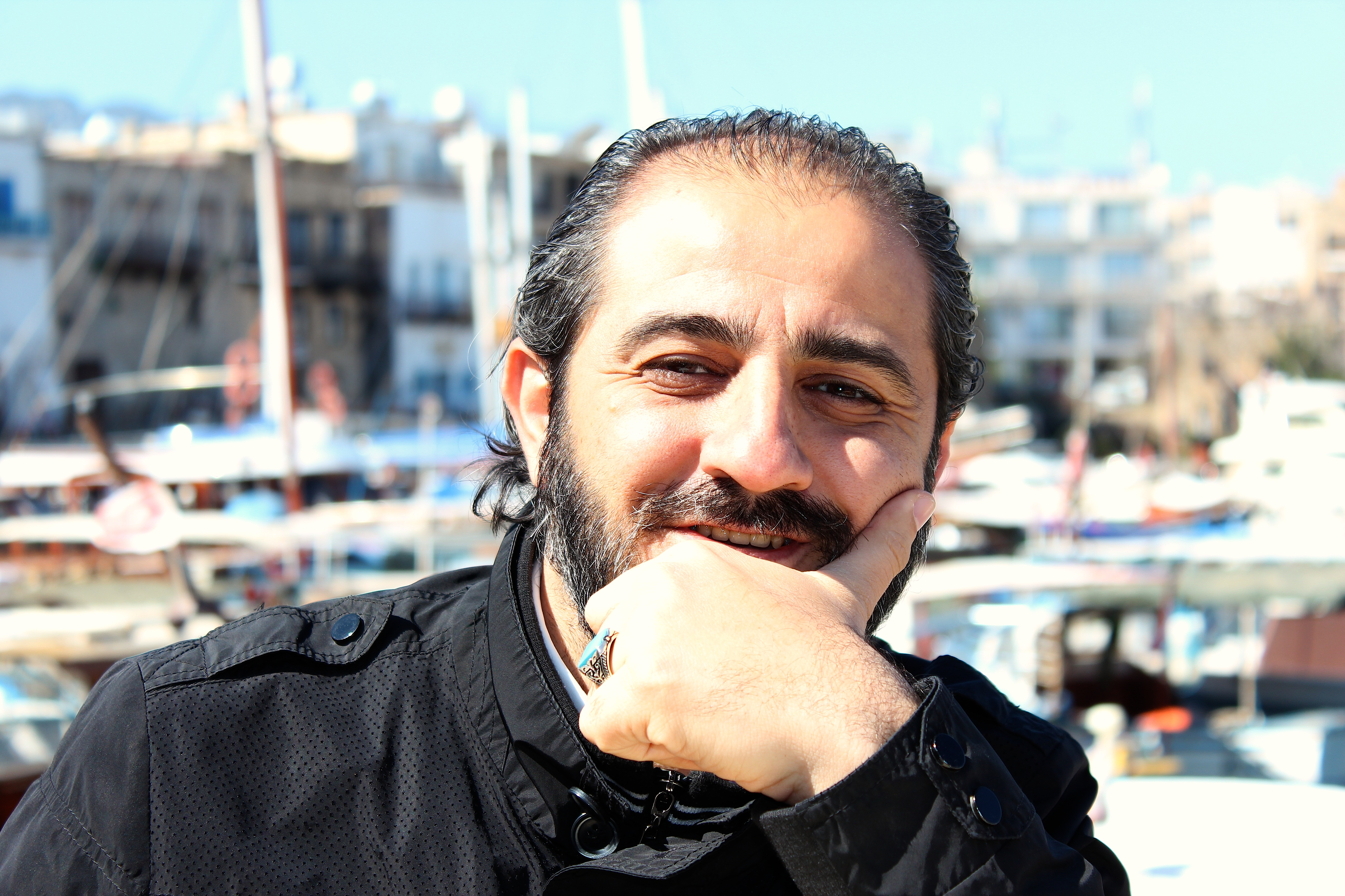 Ferhat Atik, 2013.